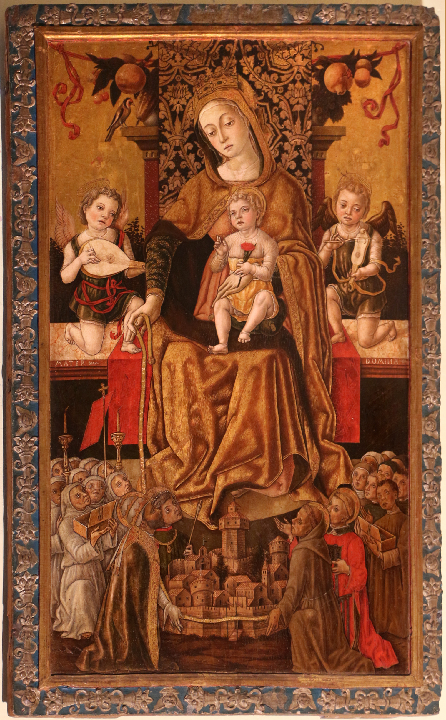 Massa Fermana